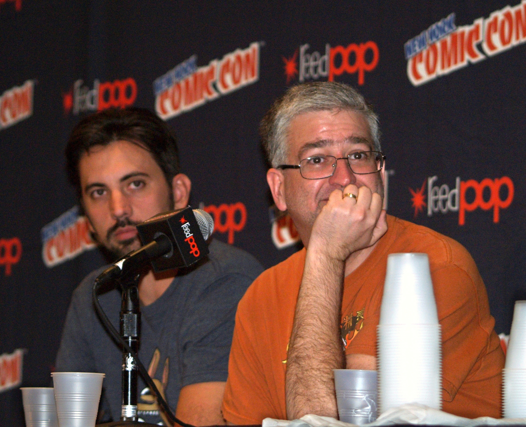 Television writer/producers Jeremy Slater and Sean Crouch at a panel discussion on the 2016 - 2018 TV series The Exorcist on Sunday, October 8, 2017 at the Jacob K. Javits Convention Center in Manhattan, Day 4 of the 2017 New York Comic Con. This photo was created by Luigi Novi. It is not in the public domain, and use of this file outside of the licensing terms is a copyright violation.